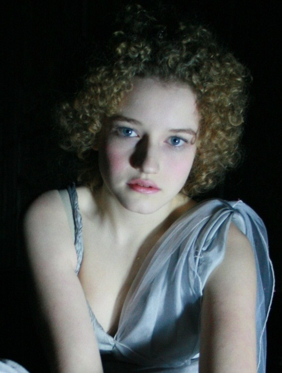 Actress Julia Garner in February 2009